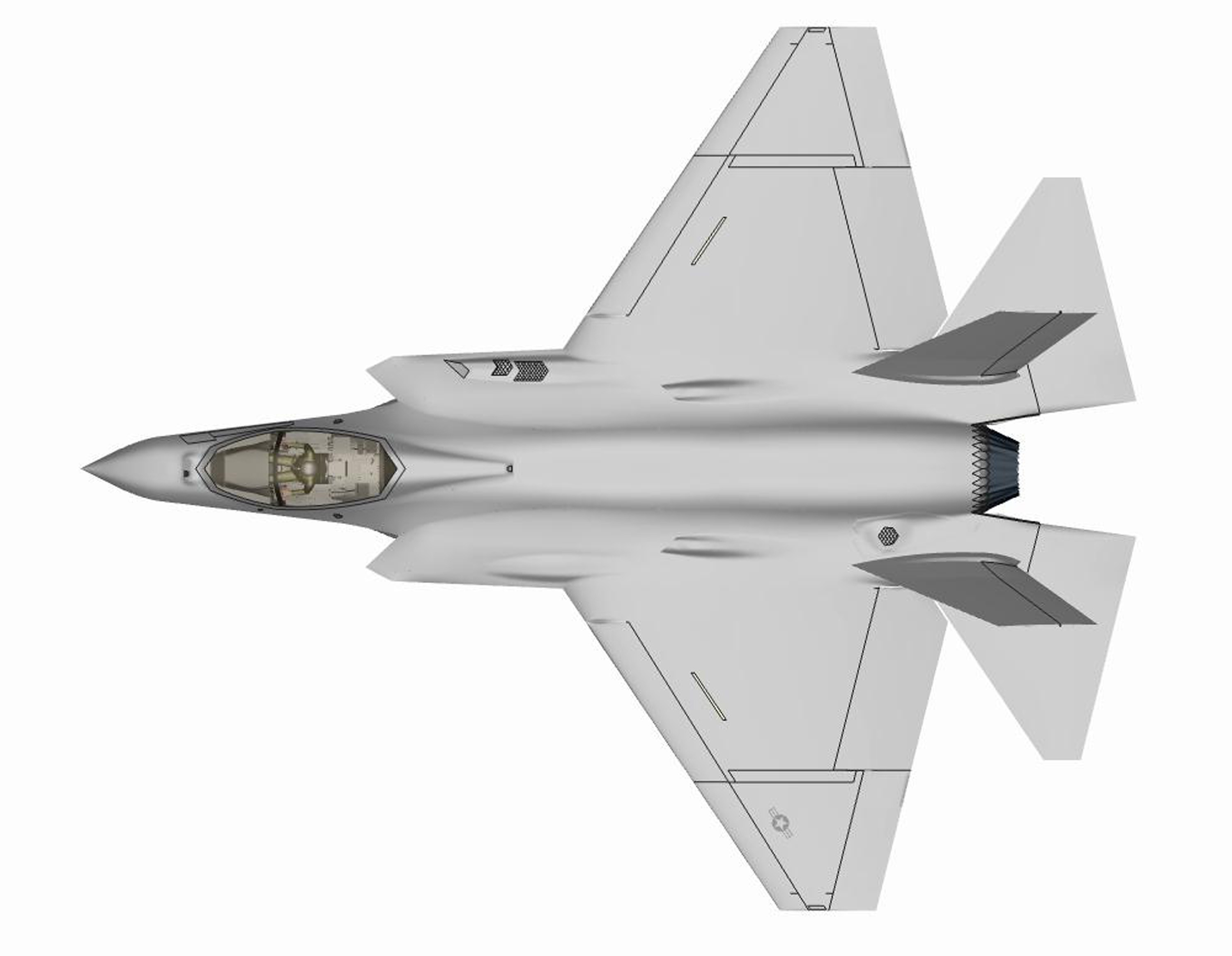 This is a image of F-35 C Joint Strike Fighter